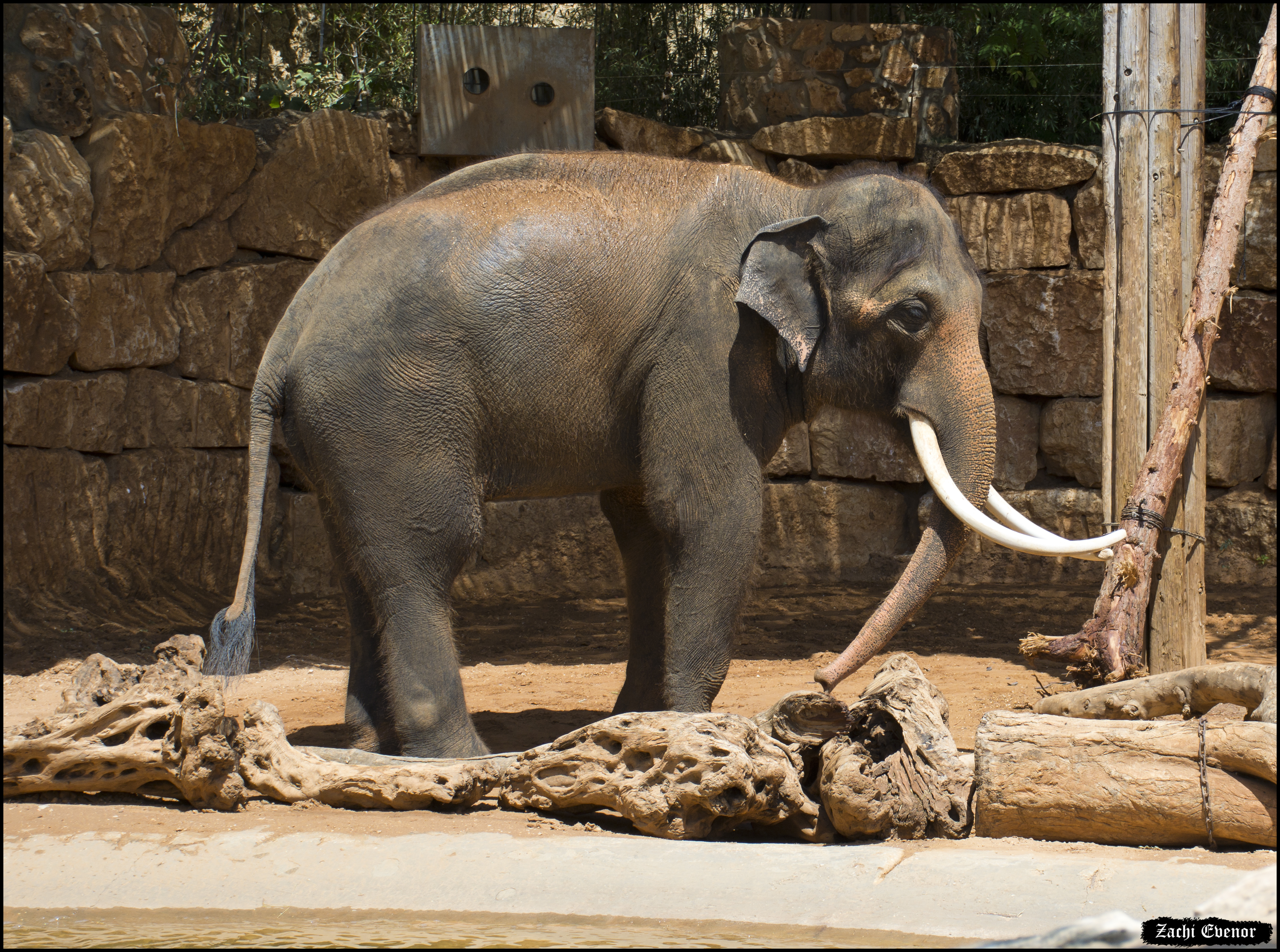 Asian Elephant - Elephas maximus, Jerusalem Biblical Zoo, Jerusalem, Israel